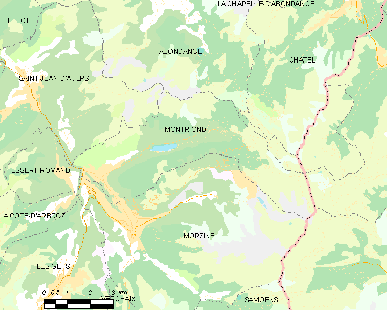 Map of French municipality Montriond